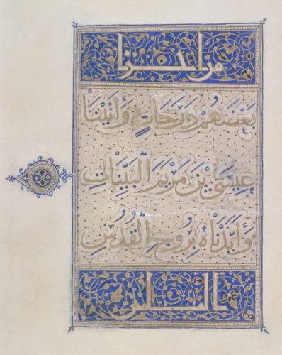 Qur'anic Manuscript. 14th Century, Iran. Location: The Chester Beatty Library.